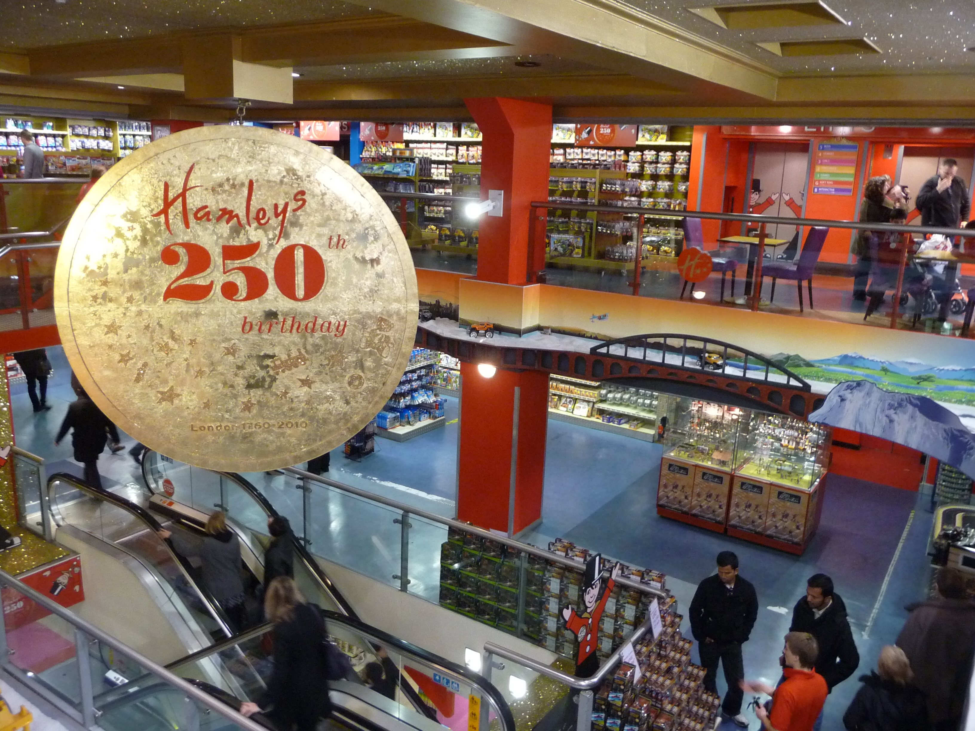 London : Westminster - Hamleys Toy Shop Hamleys on Regent St from the top floor of the shop looking towards a spinning disk which says it's celebrating its 250th birthday this year.